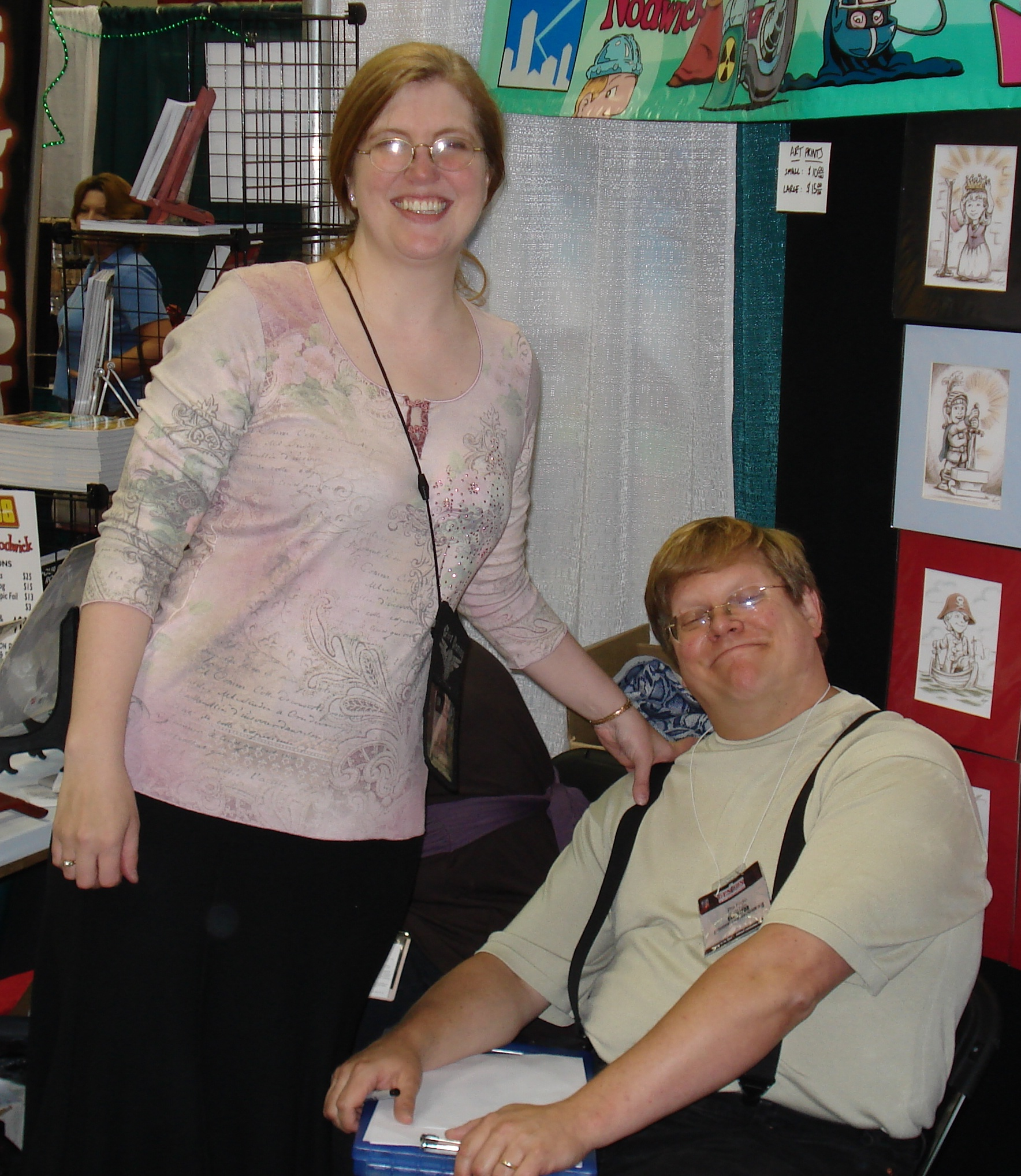 Photograph of Kaja (left, standing) and Phil Foglio (right, sitting), creators of Girl Genius. The photo was taken at Gen Con Indy 2007 on 2007-08-17. The Foglios are in the "Studio Foglio" booth which they shared with Aaron Williams (booth 2326). Visible in the background is William's banner and art. The photograph was taken by and is copyright 2007 by the uploader, Alan De Smet. The photograph is multi-licensed under the Creative Commons Attribution 2.5 and 3.0 licenses; you can select the license of your choice. Per the license, credit must be given to "Alan De Smet".